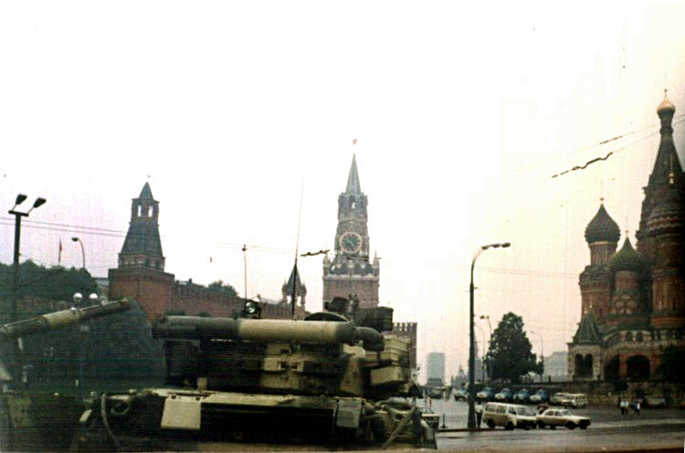 T-80UD tanks in the Red square during the 1991 Soviet coup d'etat attempt. Location: Northern ramp of Bolshoy Moskvoretsky Bridge (not exactly Red Square, some 200 meters south from its formal southern edge, with Nabatnaya tower in sight)